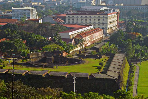 The panoramic view of PLM campus at the Intramuros from the historic Manila Hotel.